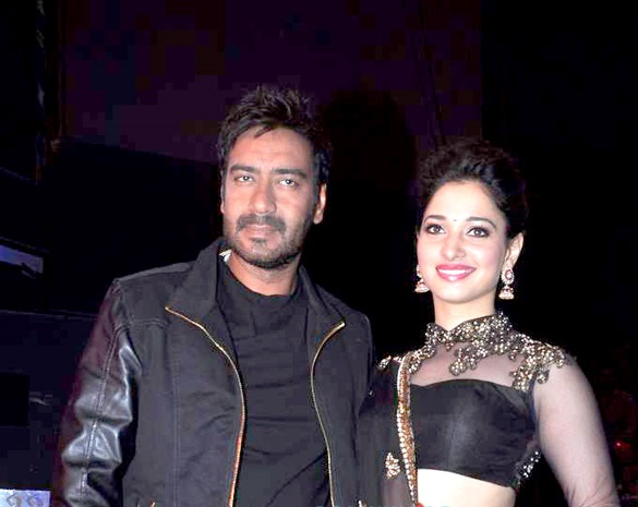 Ajay Devgn & Tamannah at the grand finale of 'Nach Baliye 5'